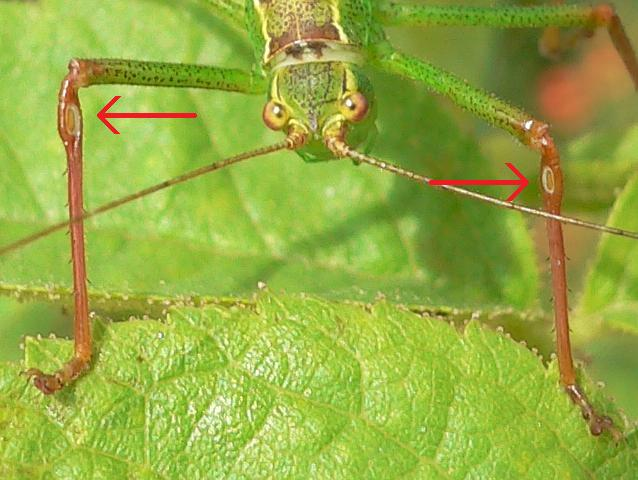 Schlesischer Busch, Alt-Treptow, Berlin, Germany – head an front legs (with "ears") of male Leptophyes punctatissima; image rotated, cropped, sharpened